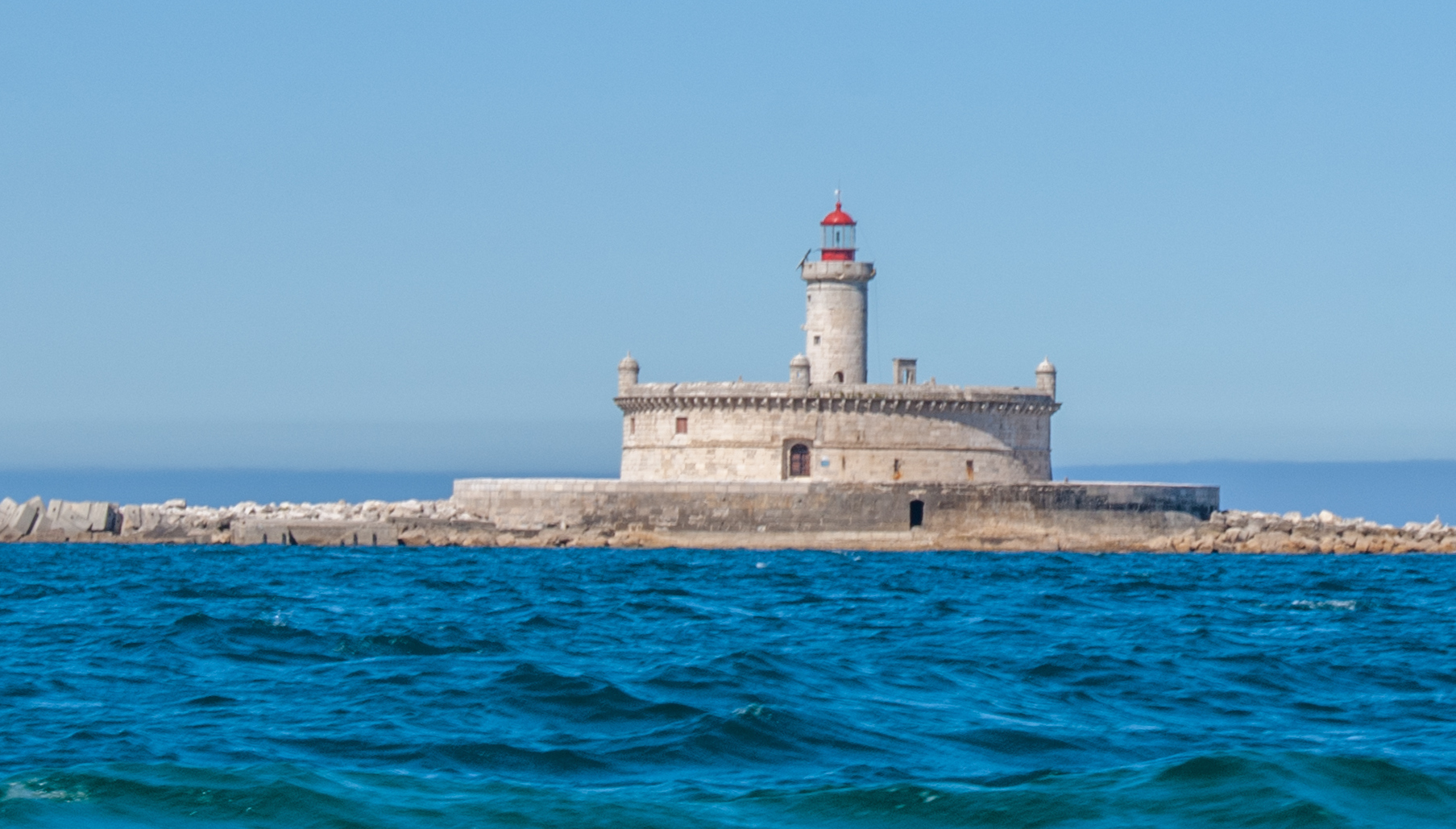 View of Fort of São Lourenço do Bugio, near Lisbon, Portugal